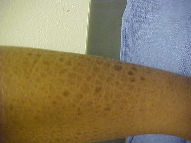 Boy with polygonal scales since birth. Brother, maternal uncle, and maternal grandfather affected.